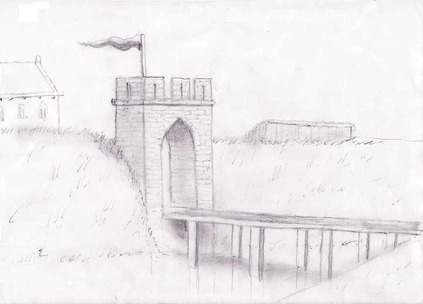 Reconstruction of the entrance of the Tempelhof, zaamslag.